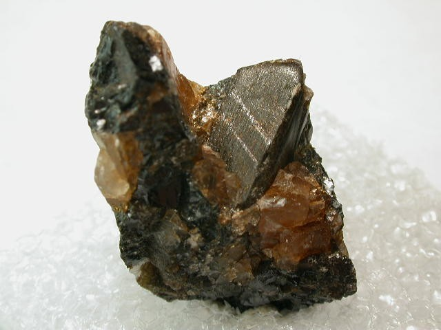 Bannisterite, Bustamit Locality: North Mine (North Broken Hill Mine; NBH Mine), Broken Hill, Yancowinna County, New South Wales, Australia Original description: A 2.5 by 1.7 cms specimen of black crystals with brown Bustamite.